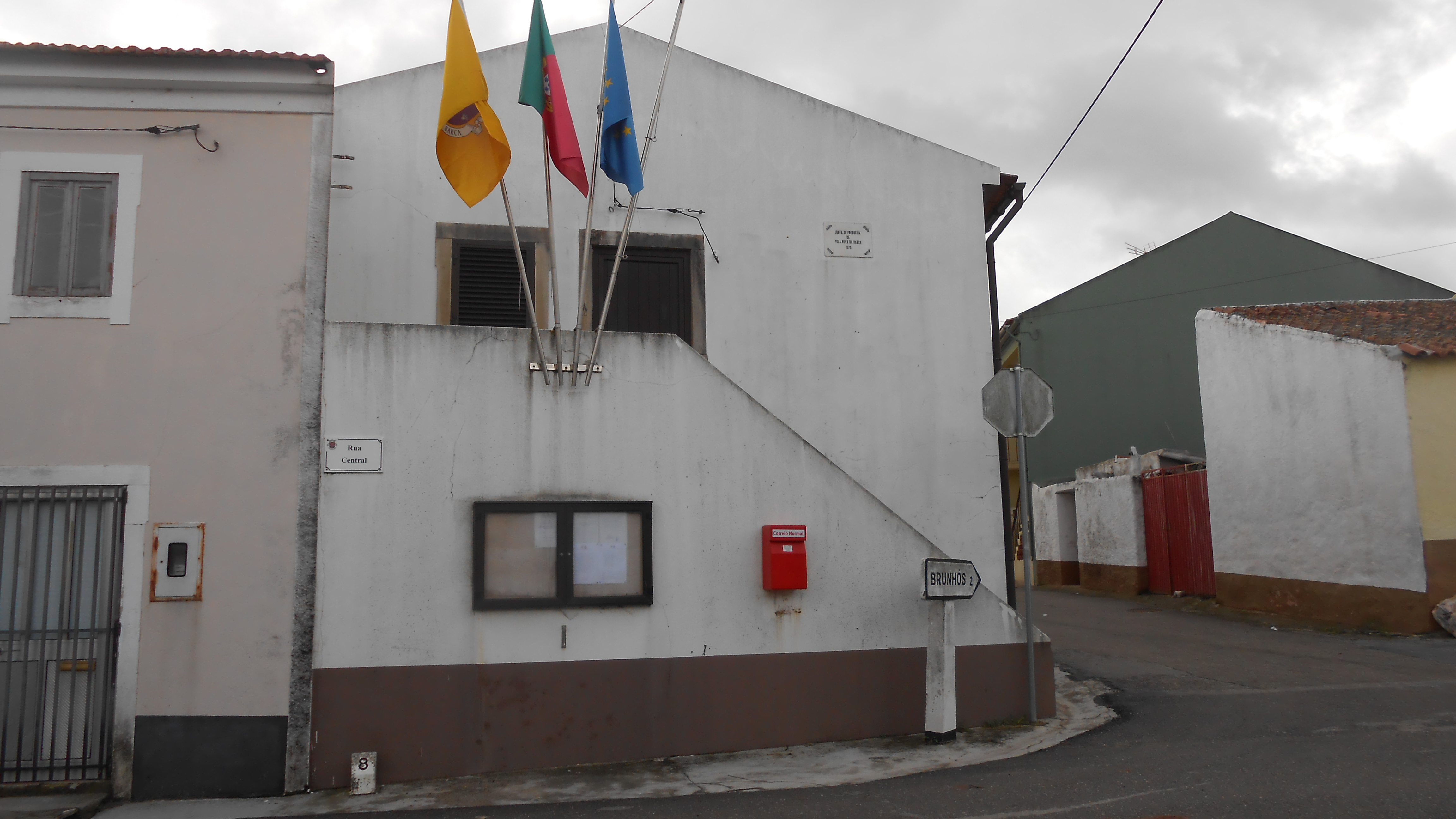 The administration building of the parish of Vila Nova da Barca, municipality Montemor-o-Velho, district of Coimbra, continental Portugal.